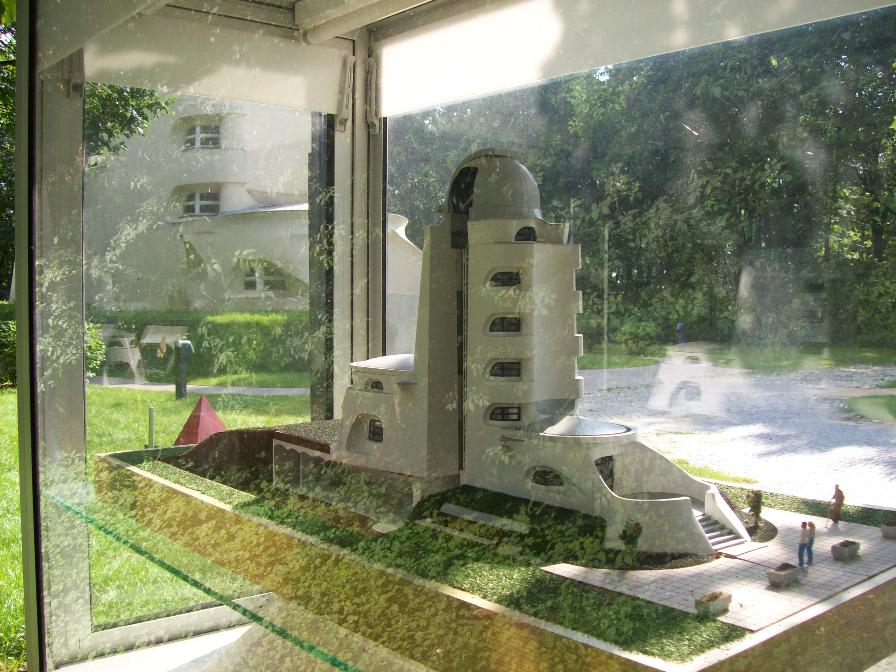 Mock-up of the Einstein Tower, with the Einstein Tower in the background